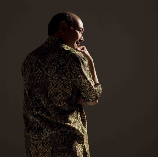 Singaporean actor Lim Kay Siu (Chinese: 林继修; born 1960) as Choo Seng Quee in the 2008 film Kallang Roar the Movie.